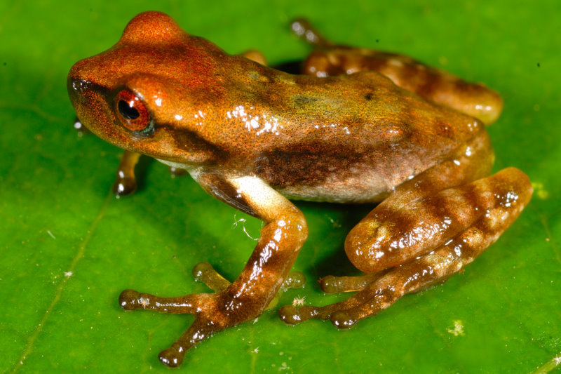 Gastrotheca antoniiochoai juvenile, SVL 13.4 mm